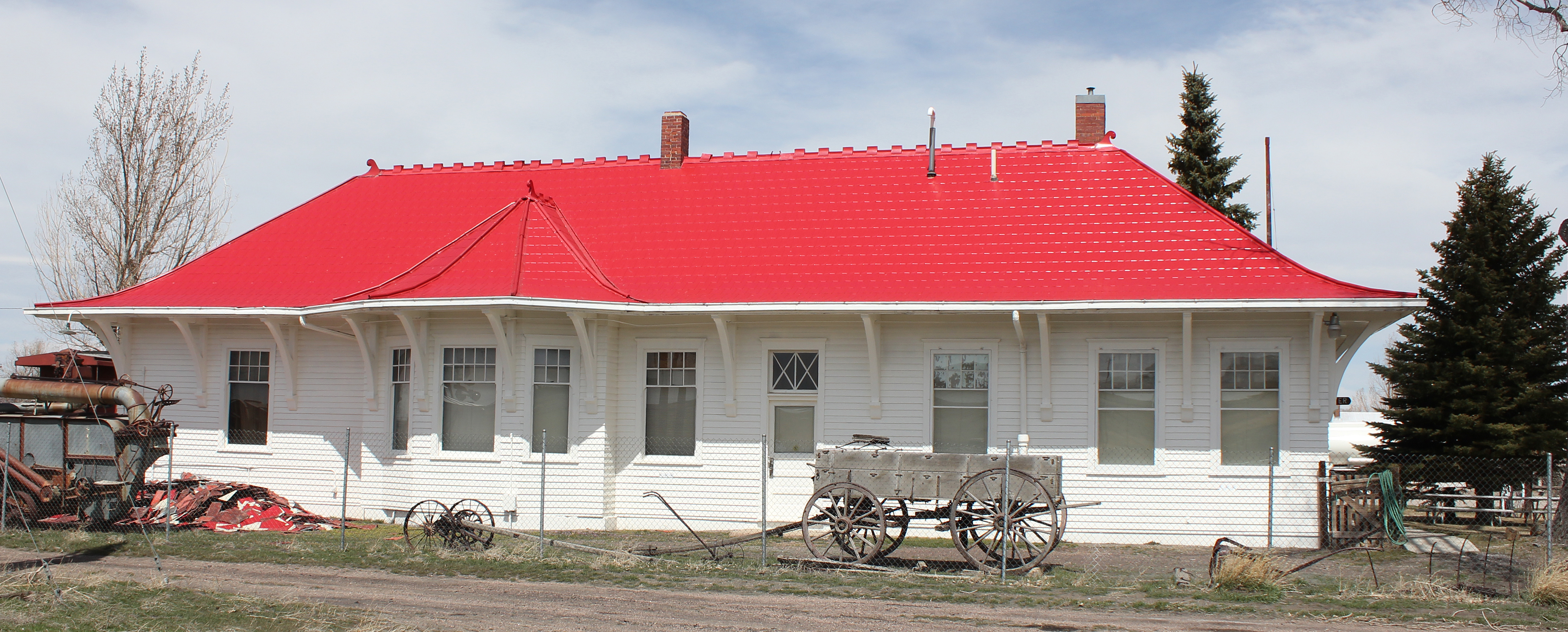 The Medicine Bow Union Pacific Depot, located in Medicine Bow, Wyoming. The property is listed on the National Register of Historic Places. The building now functions as the Medicine Bow Museum. The view here is of the back (trackside) of the building. 48CR4469